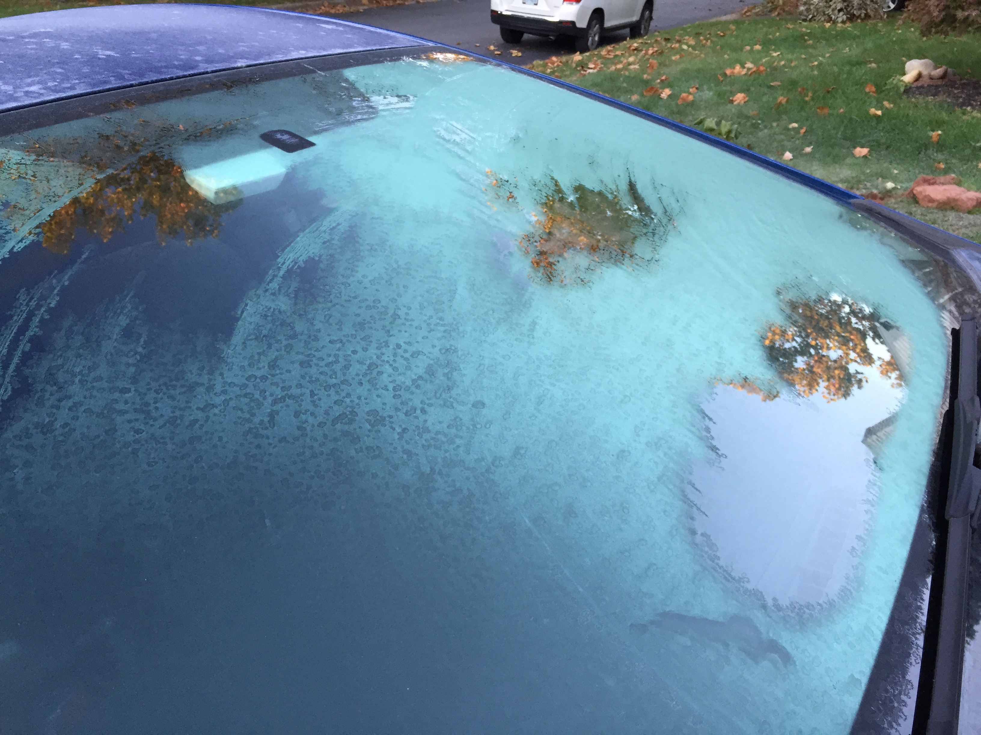 Frost on a car windshield on Tranquility Court in the Franklin Farm section of Oak Hill, Virginia